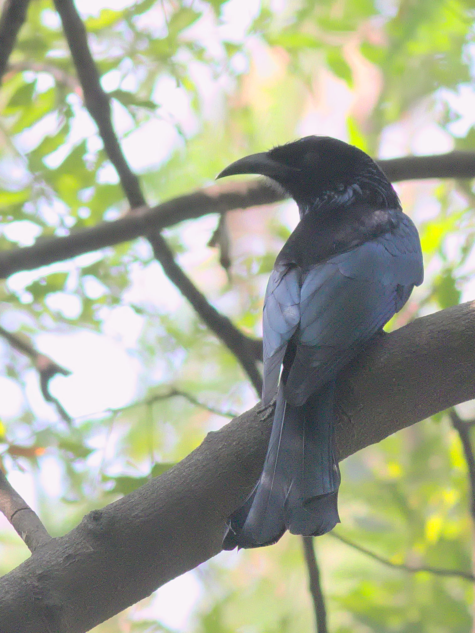 Hair-crested drongo photographed in SGPGI Forest, SGPGI Campus, Lucknow, Uttar Pradesh, India, in November 2016